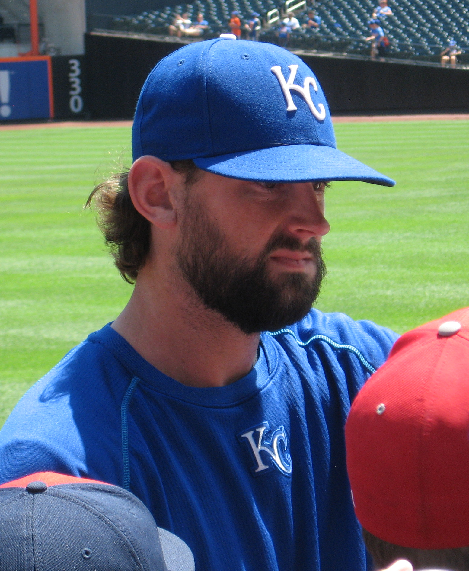 Luke Hochevar of the Kansas City Royals, June 22, 2016.